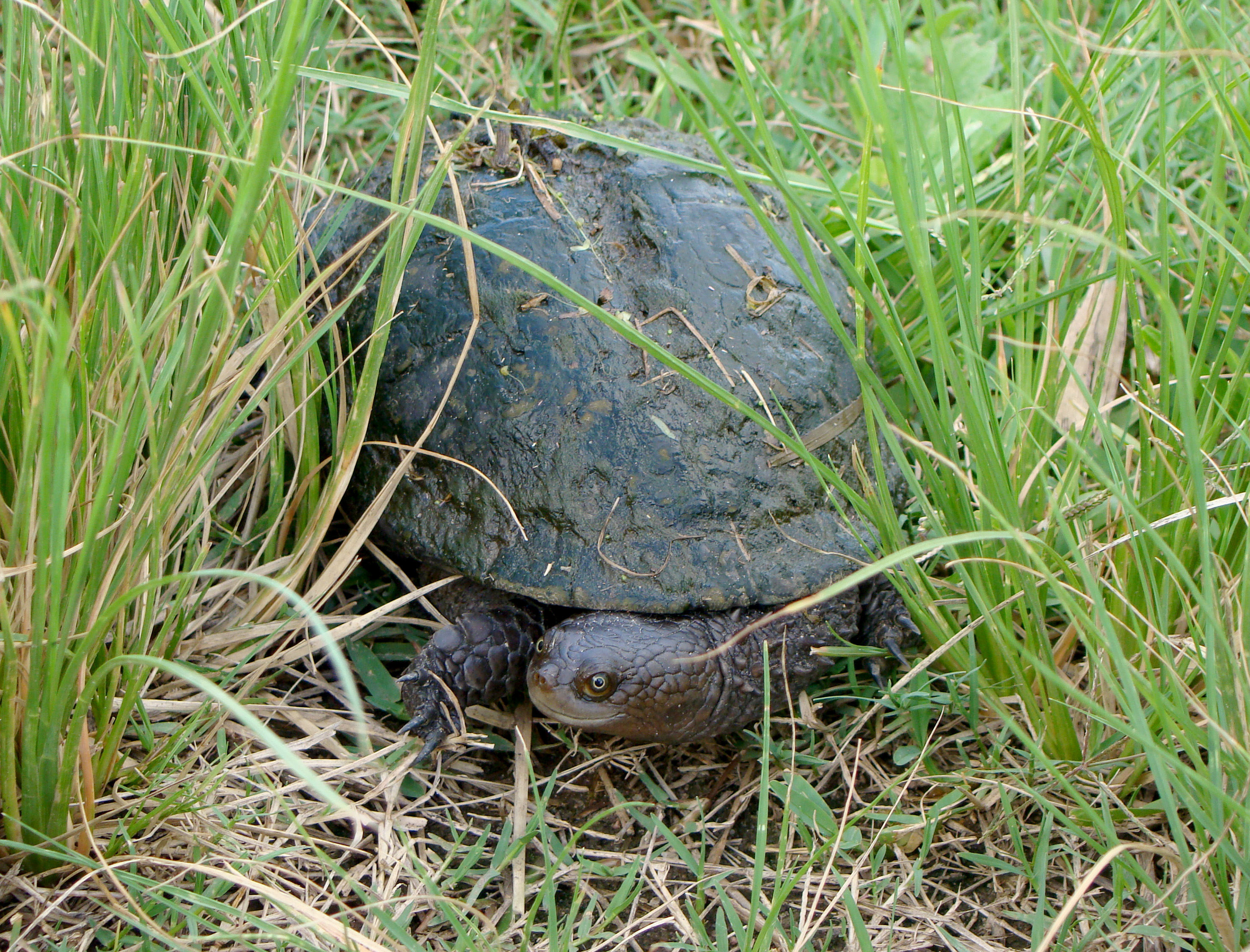 BLACK SPINE-NECKED turtle Acanthochelys spixii.